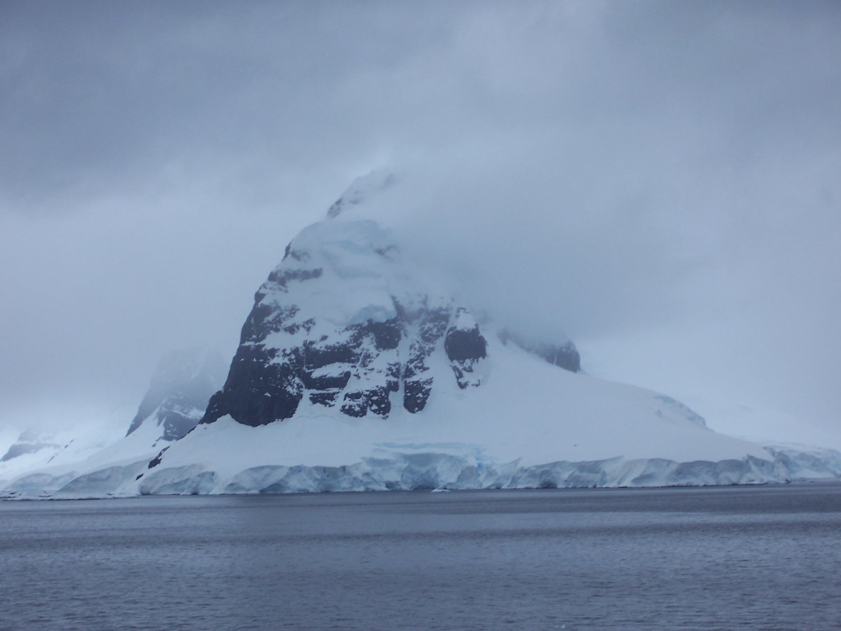 photograph of Una's Tits formation, Lemaire Channel, Antarctica